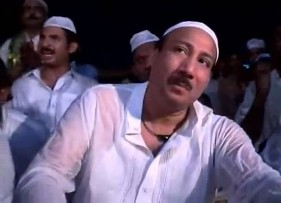 Ustad Farrukh Fateh Ali Khan Sahib - the King of Harmonium & Vocals